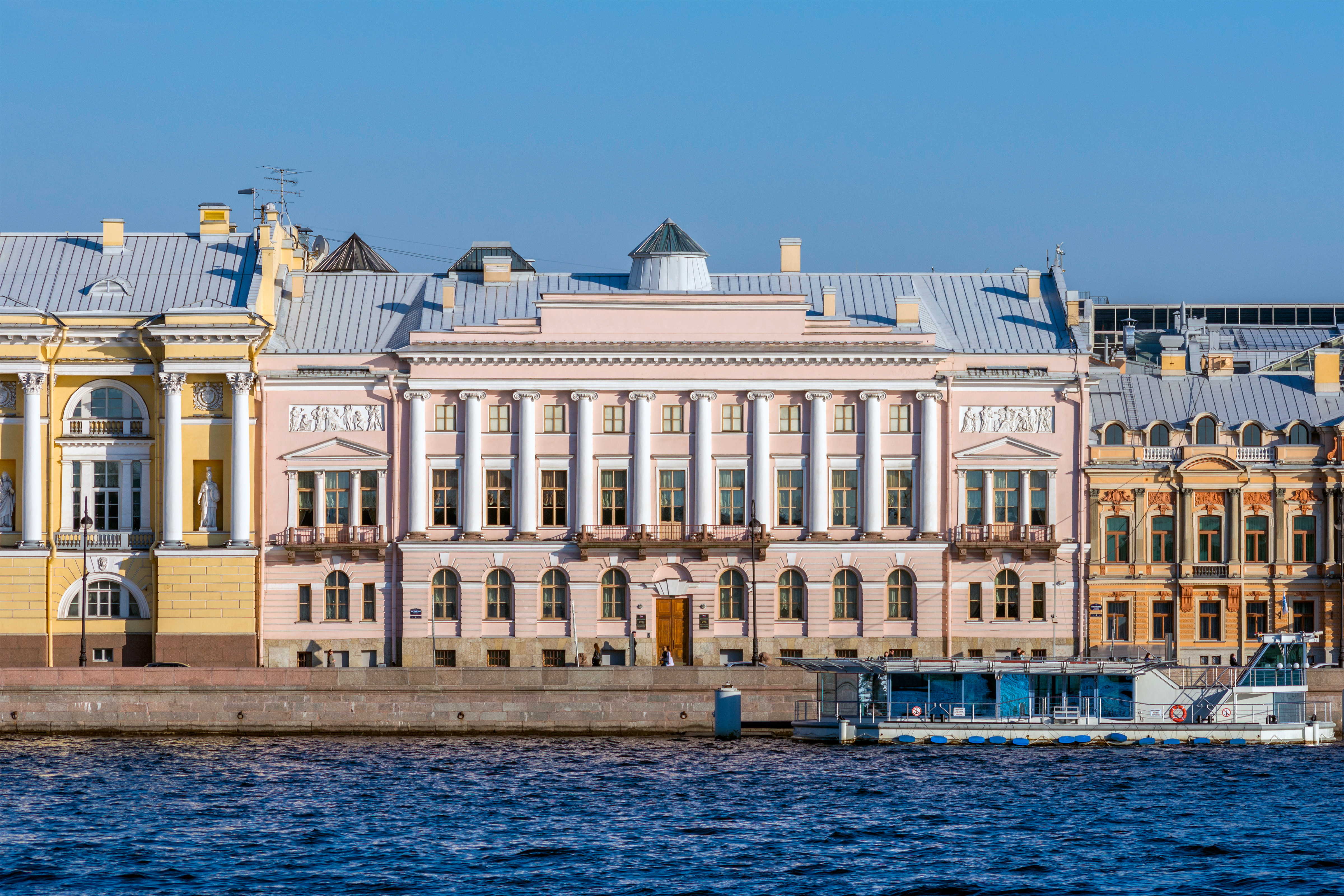 Angliyskaya Embankment in Saint Petersburg, Mansion of Comtesse de Laval